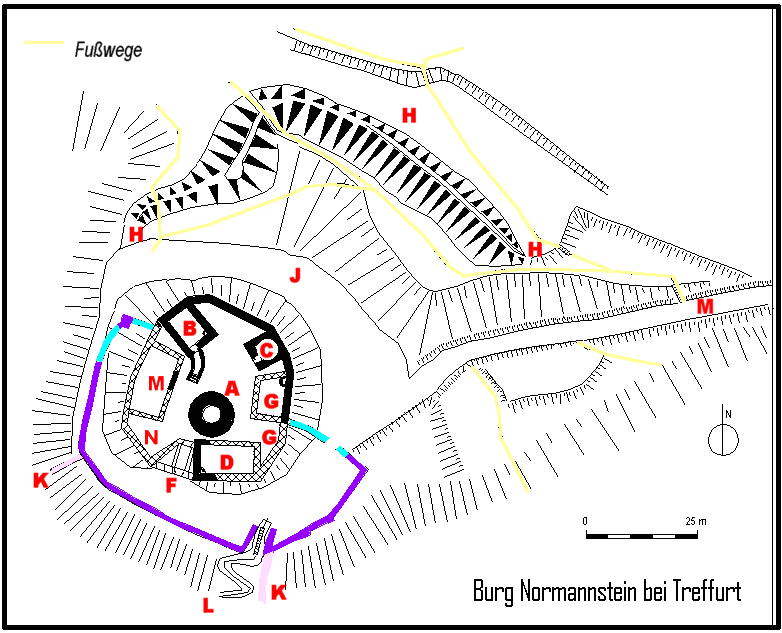 Map of the Normannstein, a castle in Treffurt, reconstruction without modern parts.